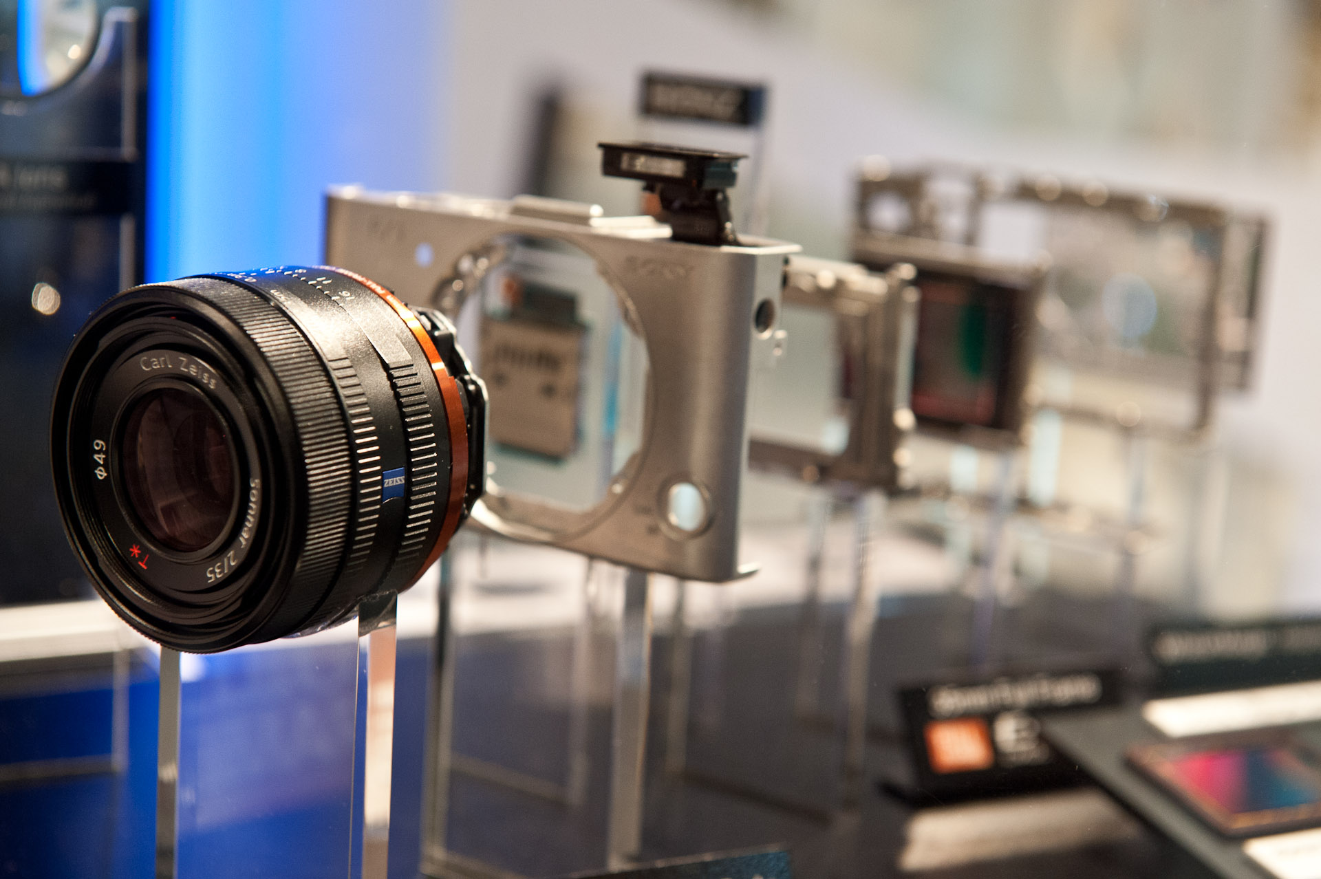 Sony Cyber-shot DSC-RX1 details.